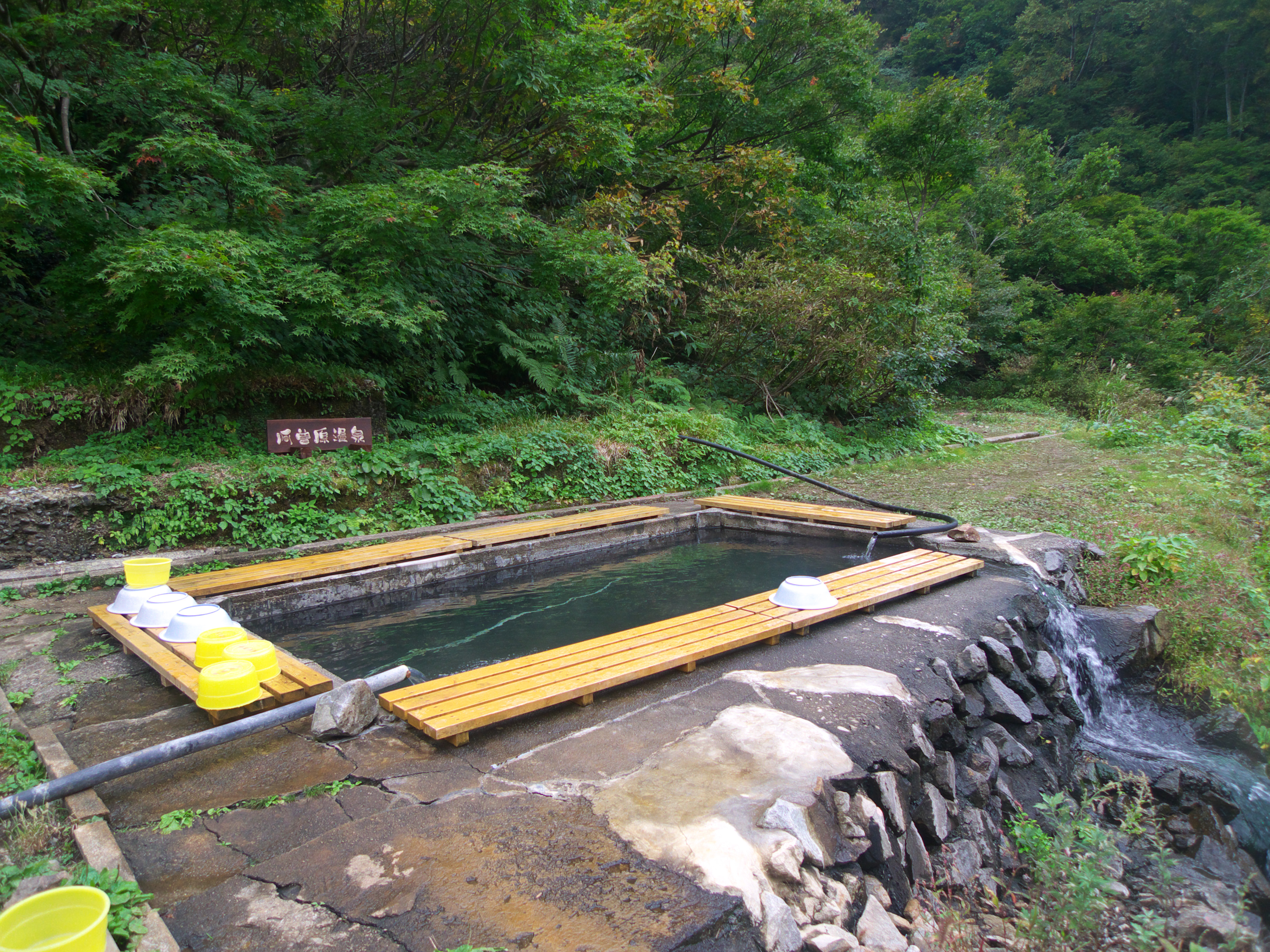 Azohara Hot Spring in Kurobe City, Toyama Prefecture, Japan